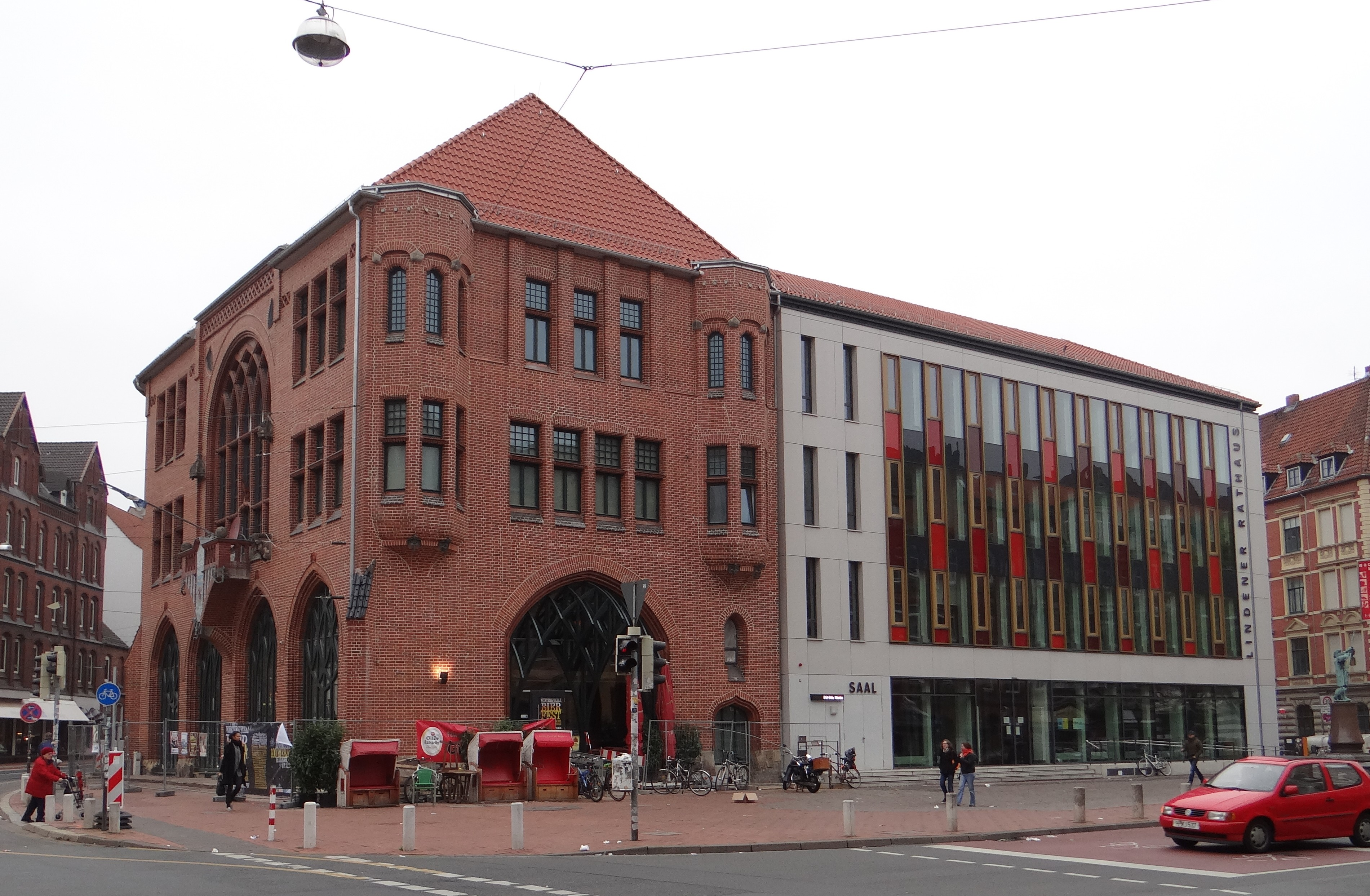 Linden town hall in Hanover, Germany. View from southeast.